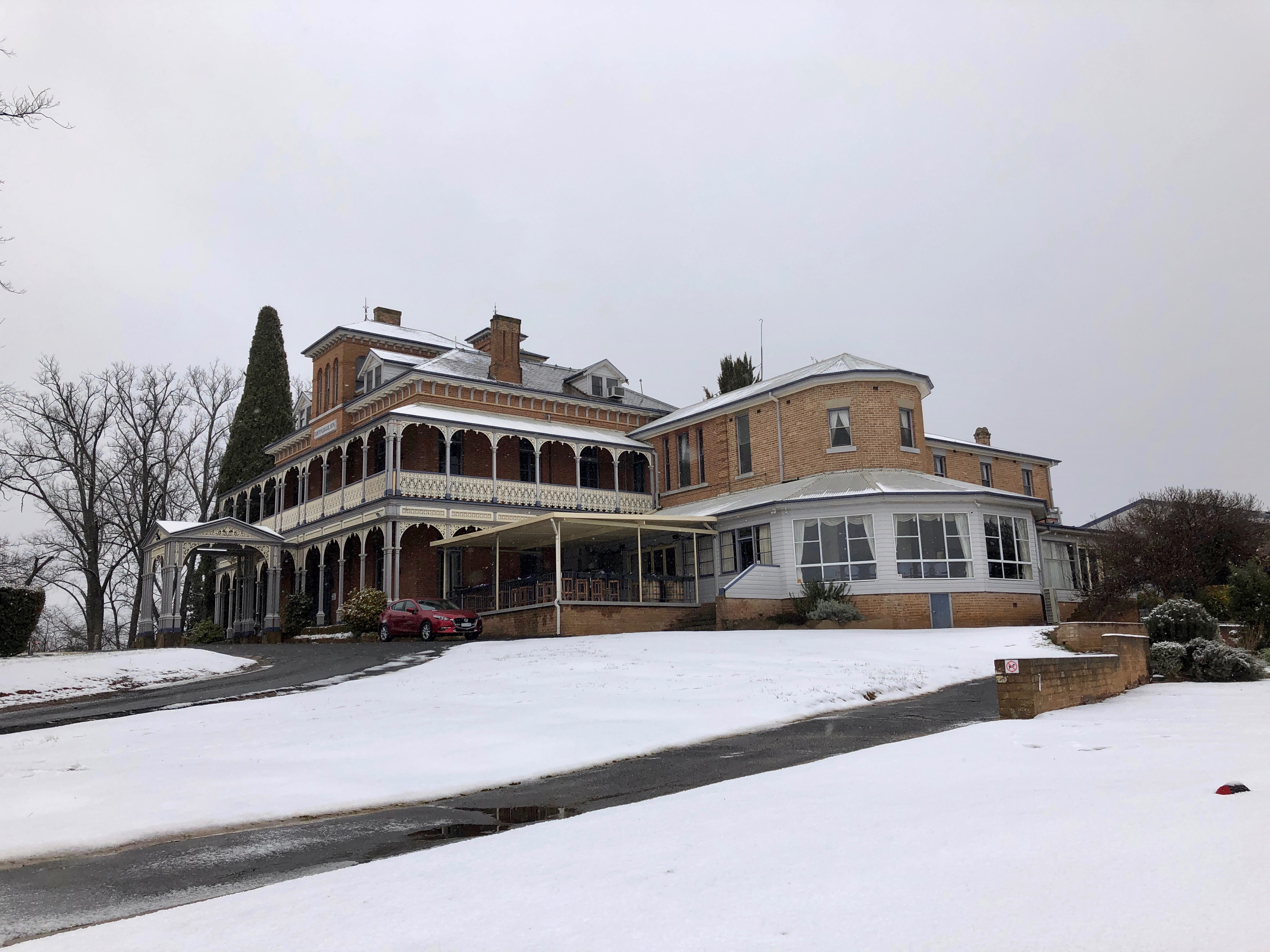 Mansion built by James Dalton, an emancipist and early settler in Orange area of New South Wales. Dalton named his home, completed in 1876, for his original home district of Duntryleague in Limerick, Ireland.Depicted place: Duntryleague with Lodge, Park, Gates and former Stables, Woodward St, Orange, NSW, Australia